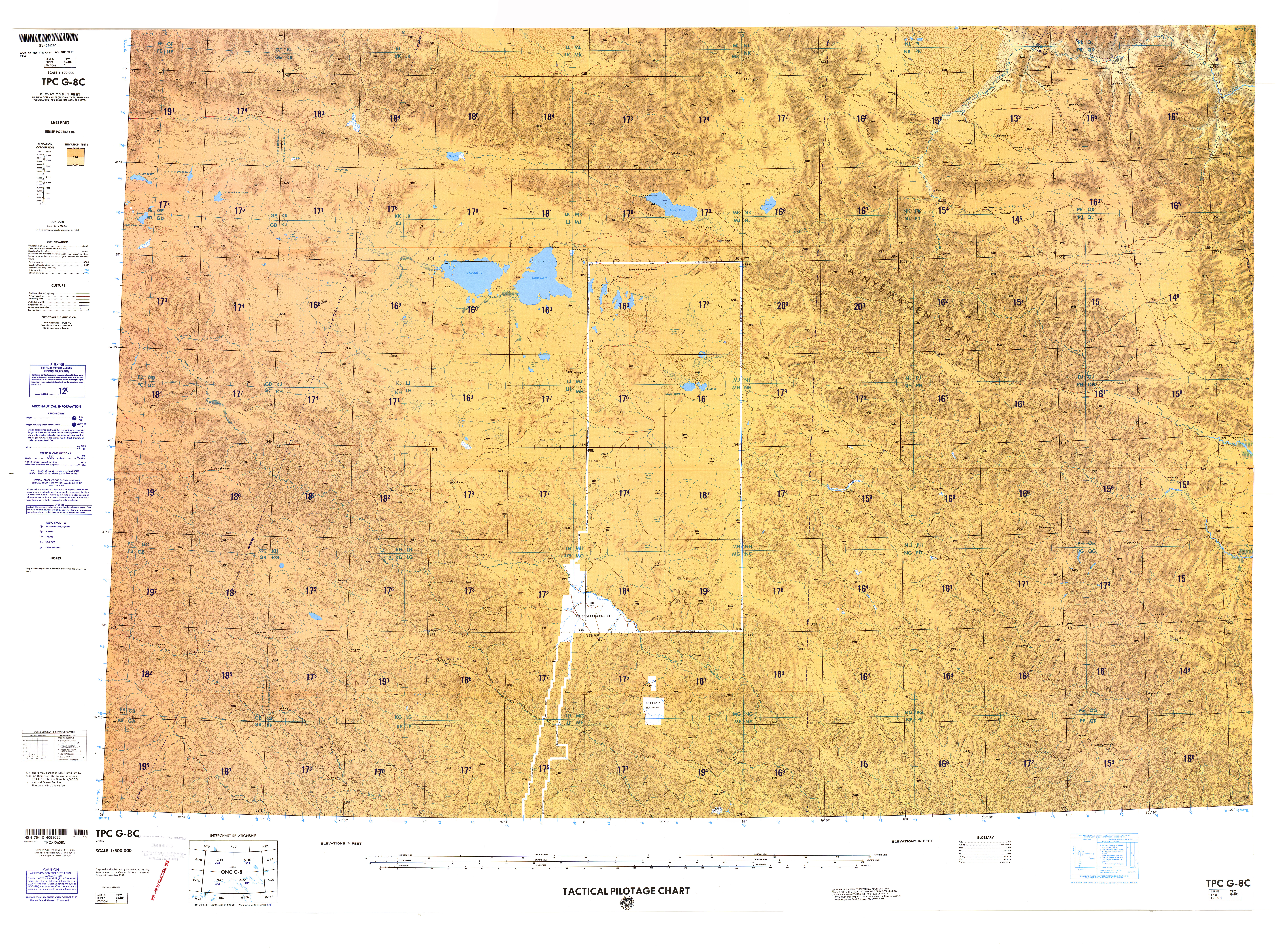 Tactical Pilotage Chart Series - World 1:500,000 Scale